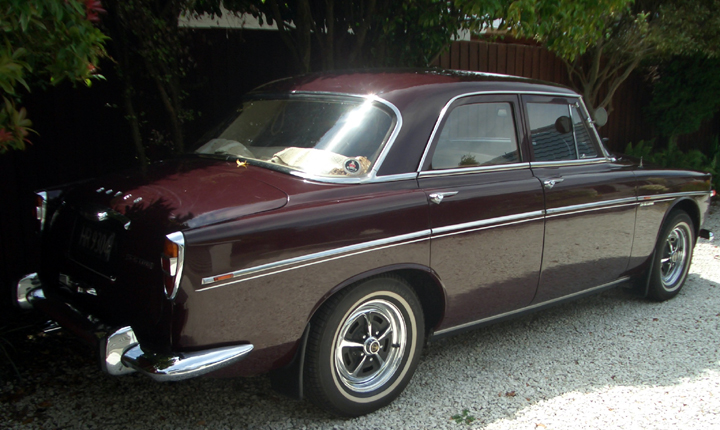 Rear quarter view of 1970 Rover P5B Saloon in Bordeaux Red